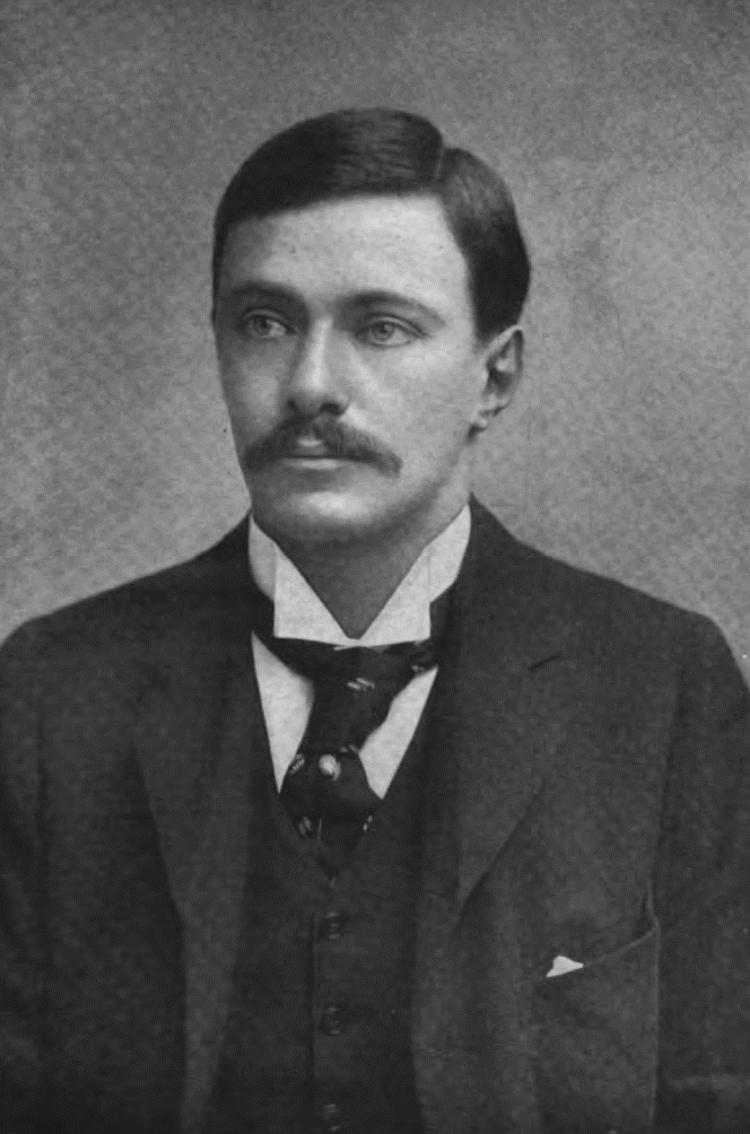 E. F. Benson, at 27.